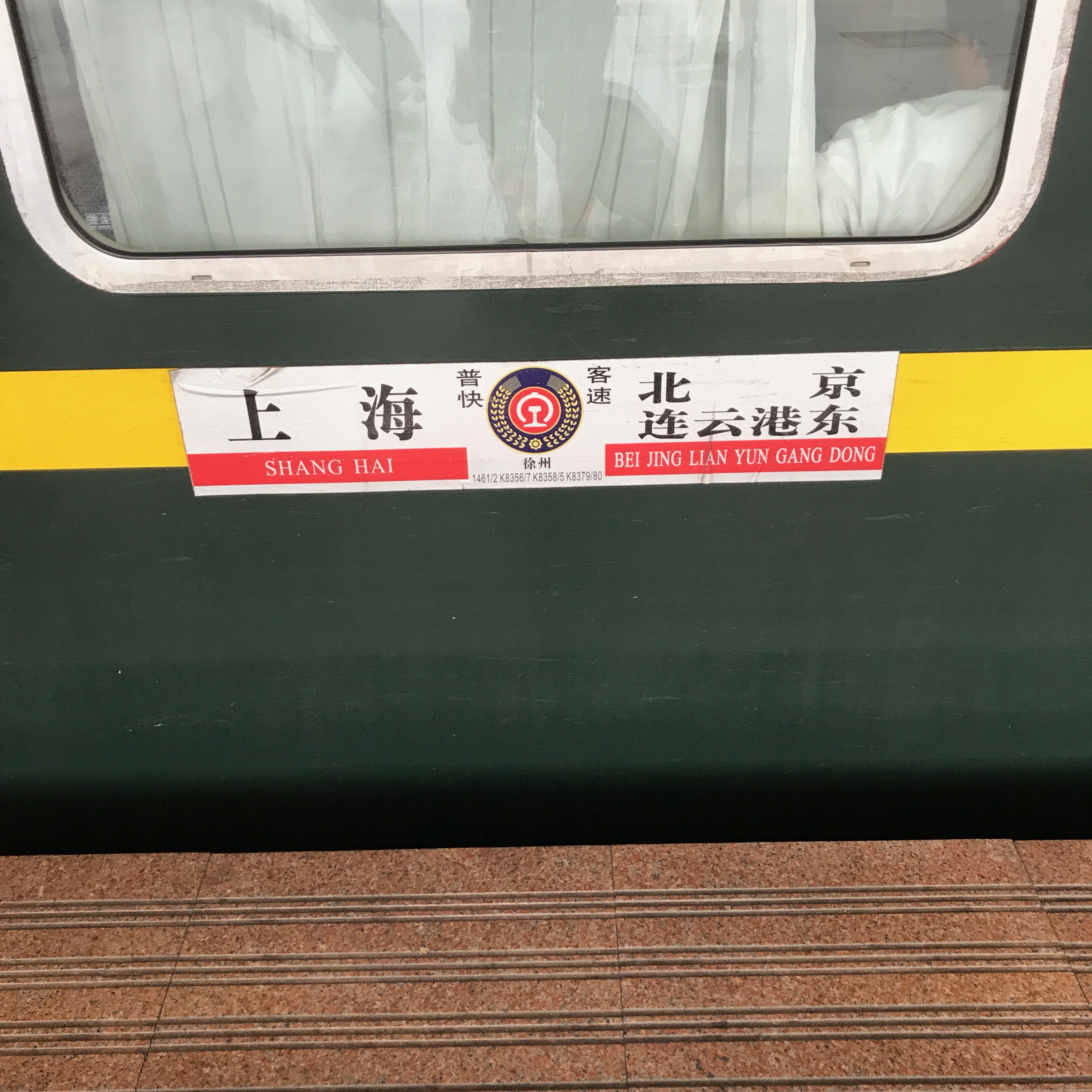 This photo was taken on July 12 2017 The train number was 1462 This direction board`s form is probably changed